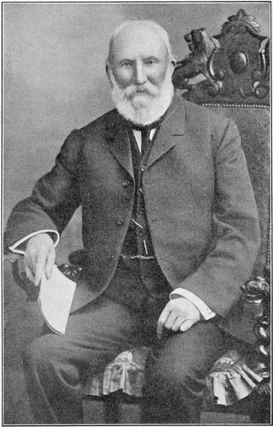 A protrait of R. H. Mathews, from Some Peculiar Burial Customs of the Australian Aborigines.